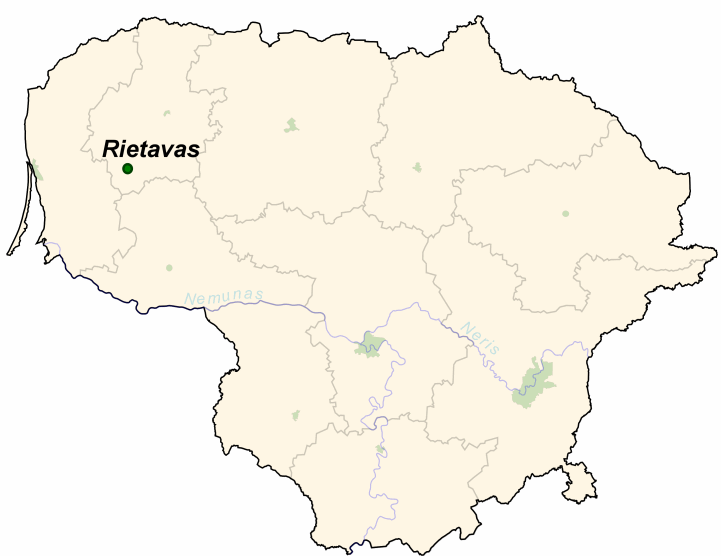 Rietavas on the map of Lithuania